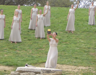 Olympia flame Greek actrees playing the role of priestesses during the Olympic Torch Lighting Ceremony in Ancient Olympia.